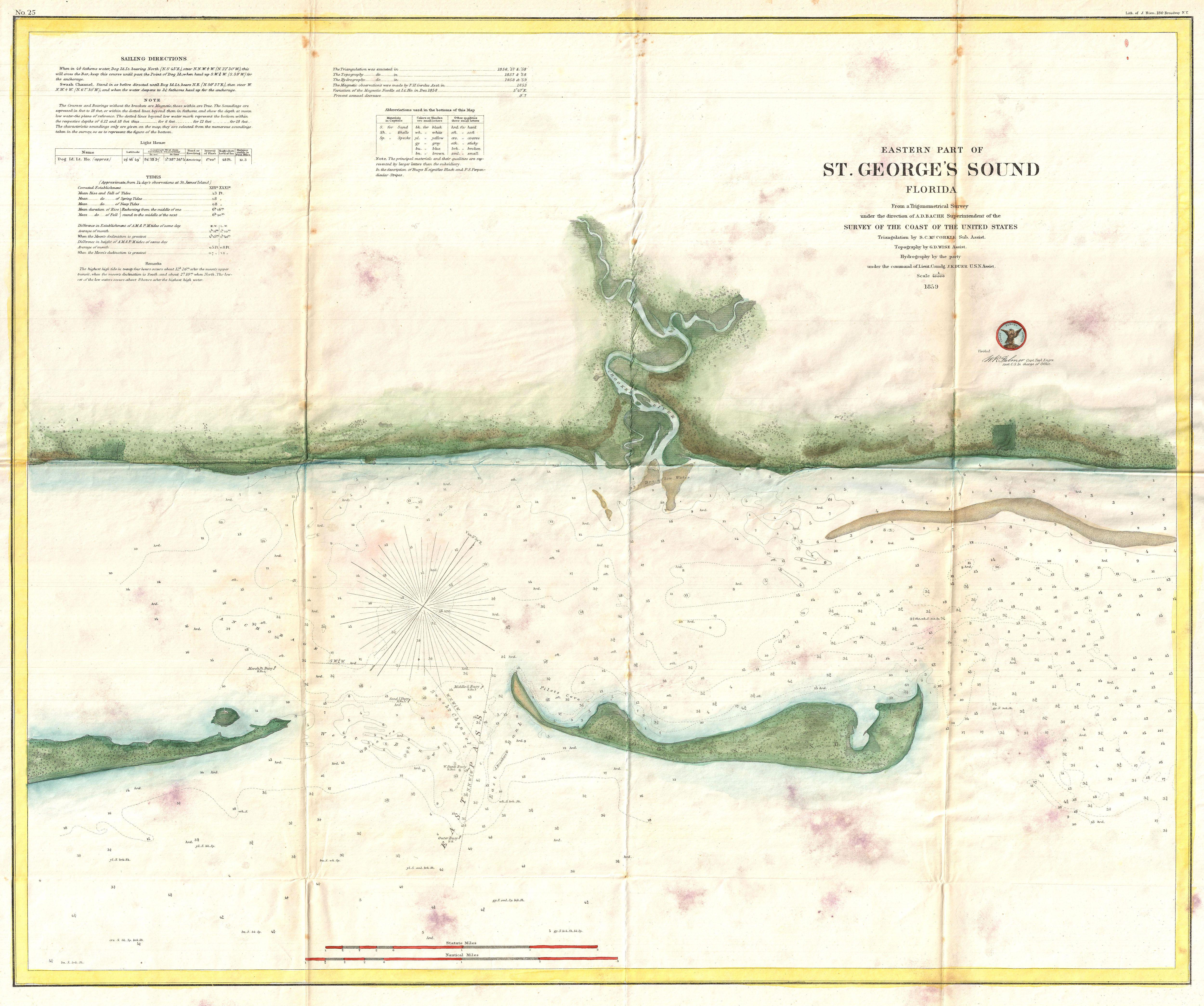 A very attractive example of the rare 1859 U.S. Coast Survey map or nautical chart of St. George Sound, Florida. St. George Sound is the coast part of Tate's Hell State Forest, just southwest of Tallahassee, along the Florida Panhandle. Centered on the Crooked River, this map covers the lands on either side of the river, the eastern part of the St. George Sound, and Dog Island. Features countess depth sounding and notes on shoals and channels. Sailing directions appear in the upper left quadrant. The triangulation for this map was completed by S. M. McCorkle. The topography is the work of G. D. Wise. The Hydrography was accomplished by a party under the command of J. K. Duer. The whole was completed under the direction of A. D. Bache, one of the most influential and prolific Superintendents of the U.S. Coast Survey. Published in the 1859 edition of the Superintendent’s Report to congress.